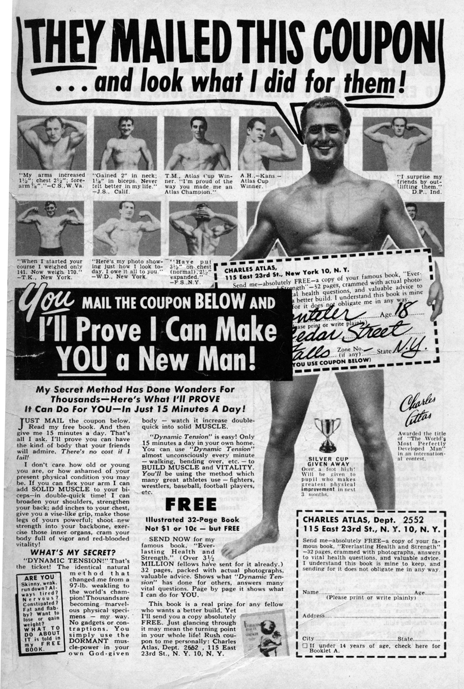 Atomic War! #4, Page 35 April, 1953